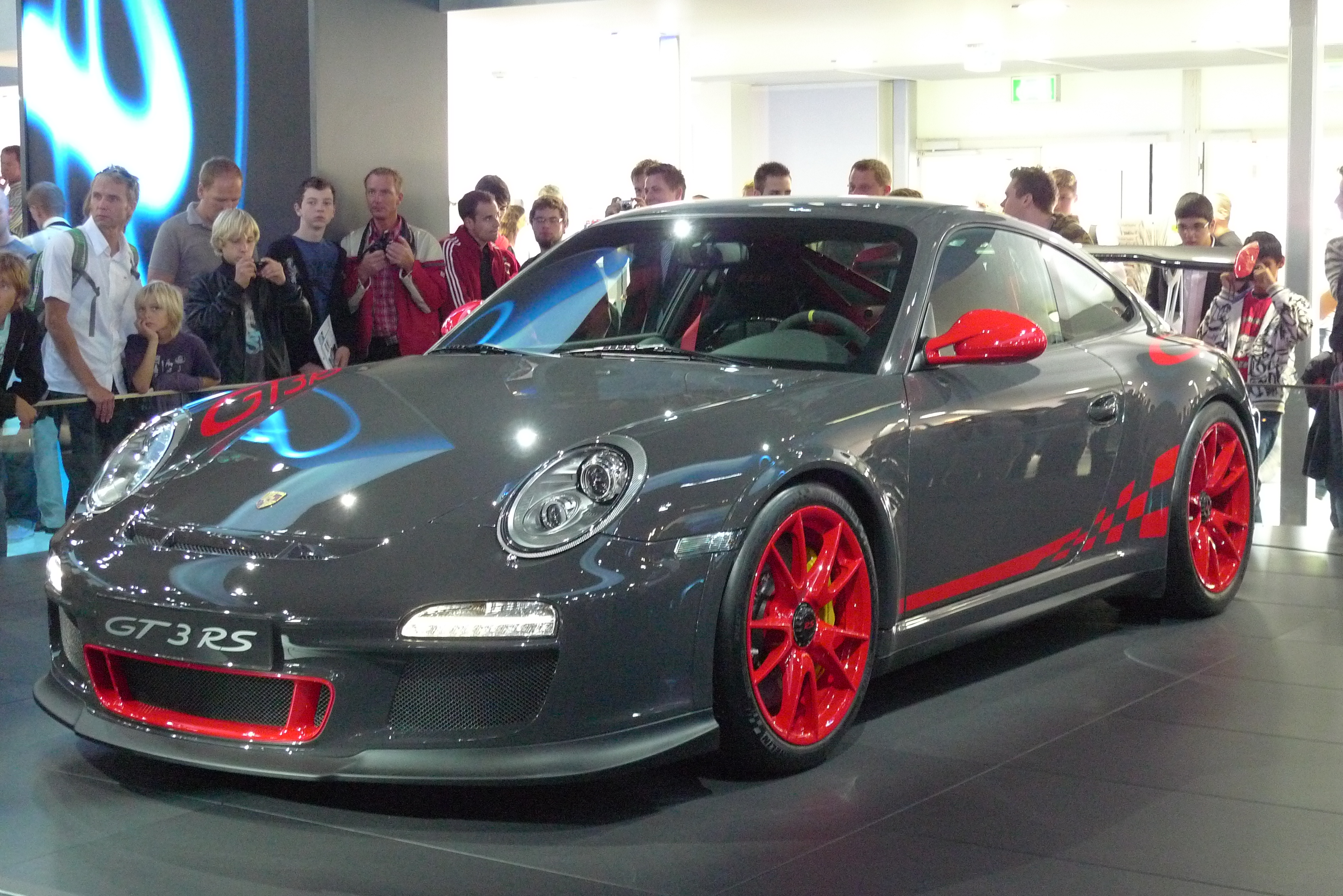 Porsche 997 GT3 RS (MY 2010) at the 2009 Frankfurt Auto Show.Porsche GT3 RS